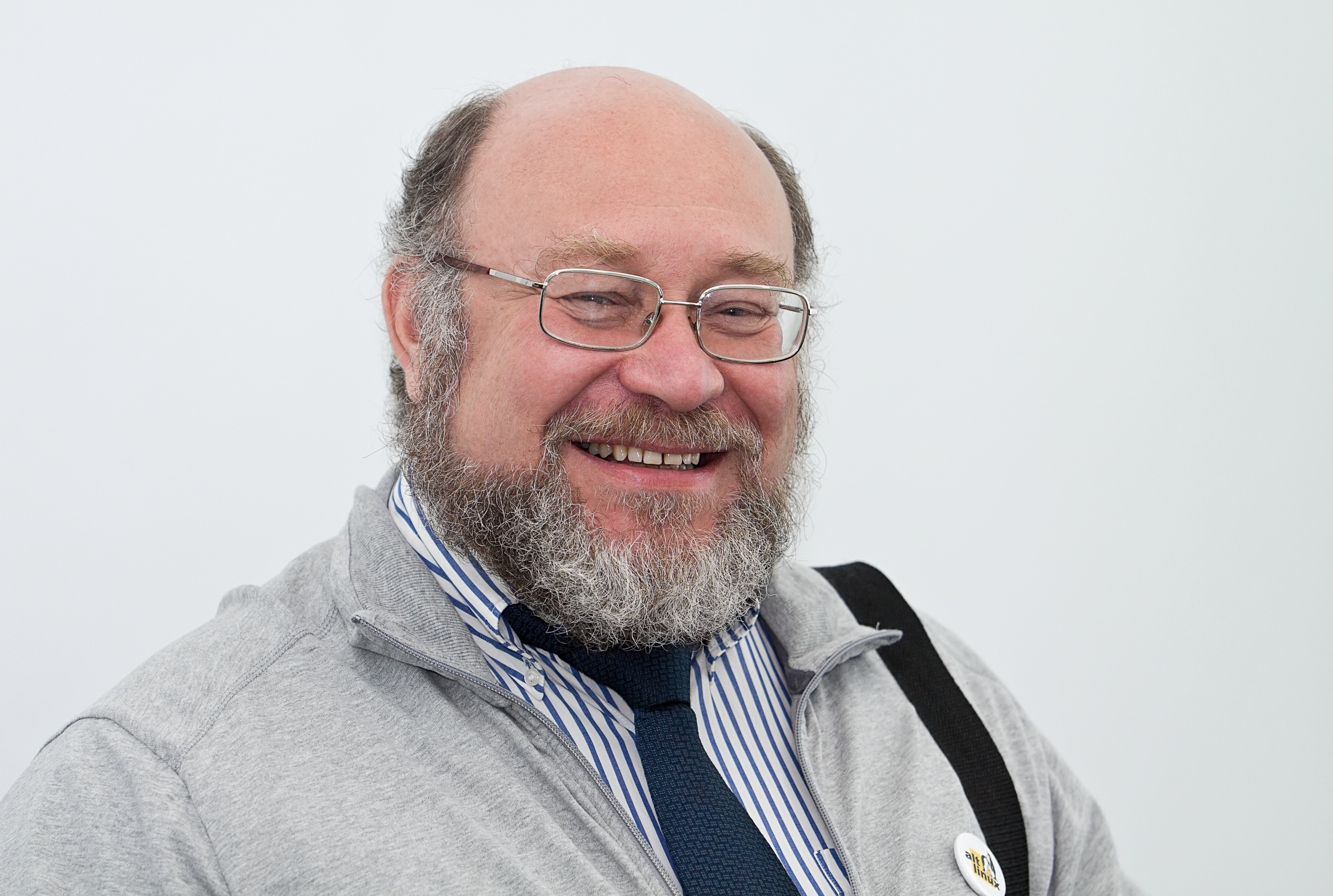 Alexey Vladimirovich Smirnov — director of «Alt Linux» company, during the opening of the Competence center of National software platform. Veskovo village, Program Systems Institute.